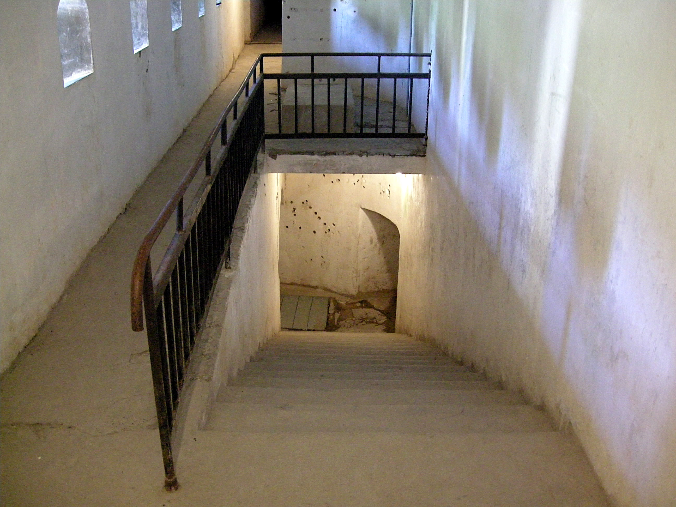 Catacombs of the Ninth Fort, part of the Kaunas Fortress.